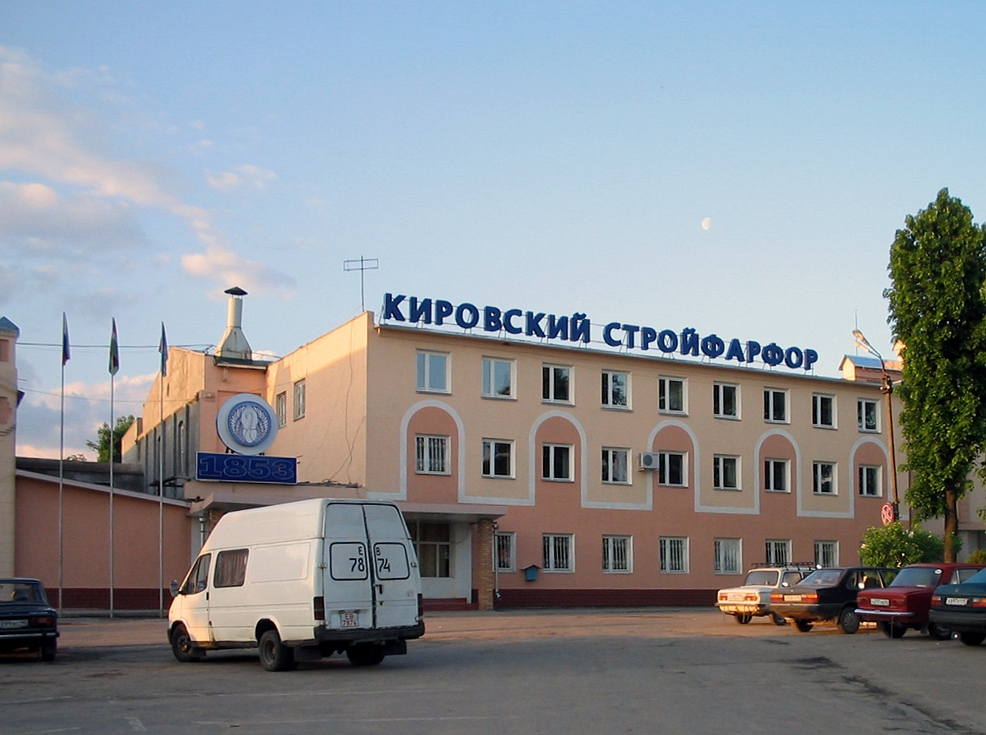 Kirov (Kaluga Oblast), building of "Stroyfarfor" ceramics factory.